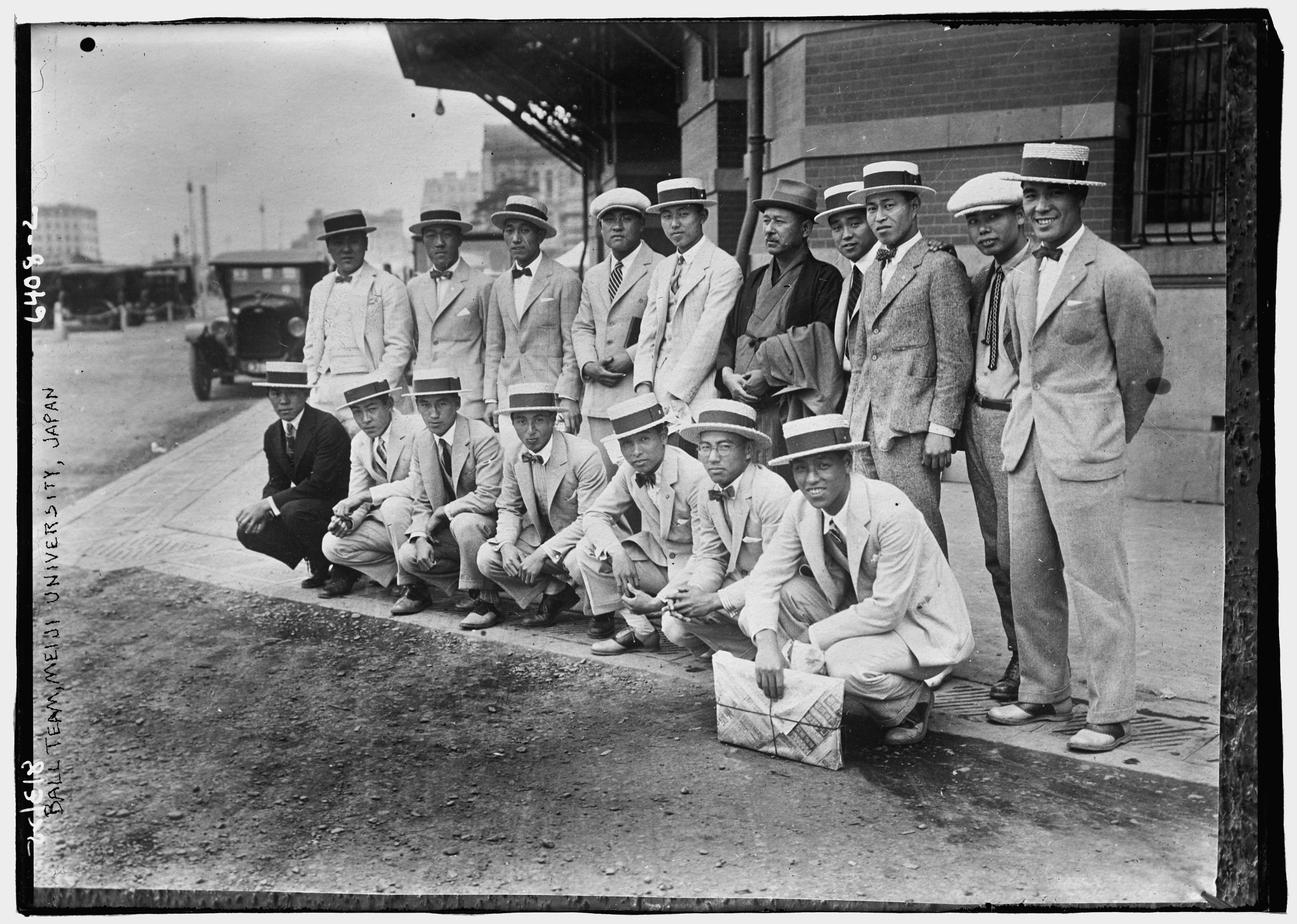 Title: Ball team, Meiji University, [Tokyo], Japan Abstract/medium: 1 negative : glass ; 5 x 7 in. or smaller.